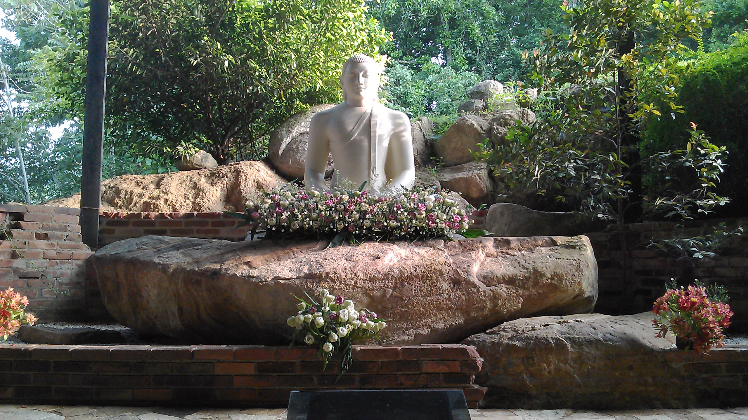 Mahamevnawa maha viharaya